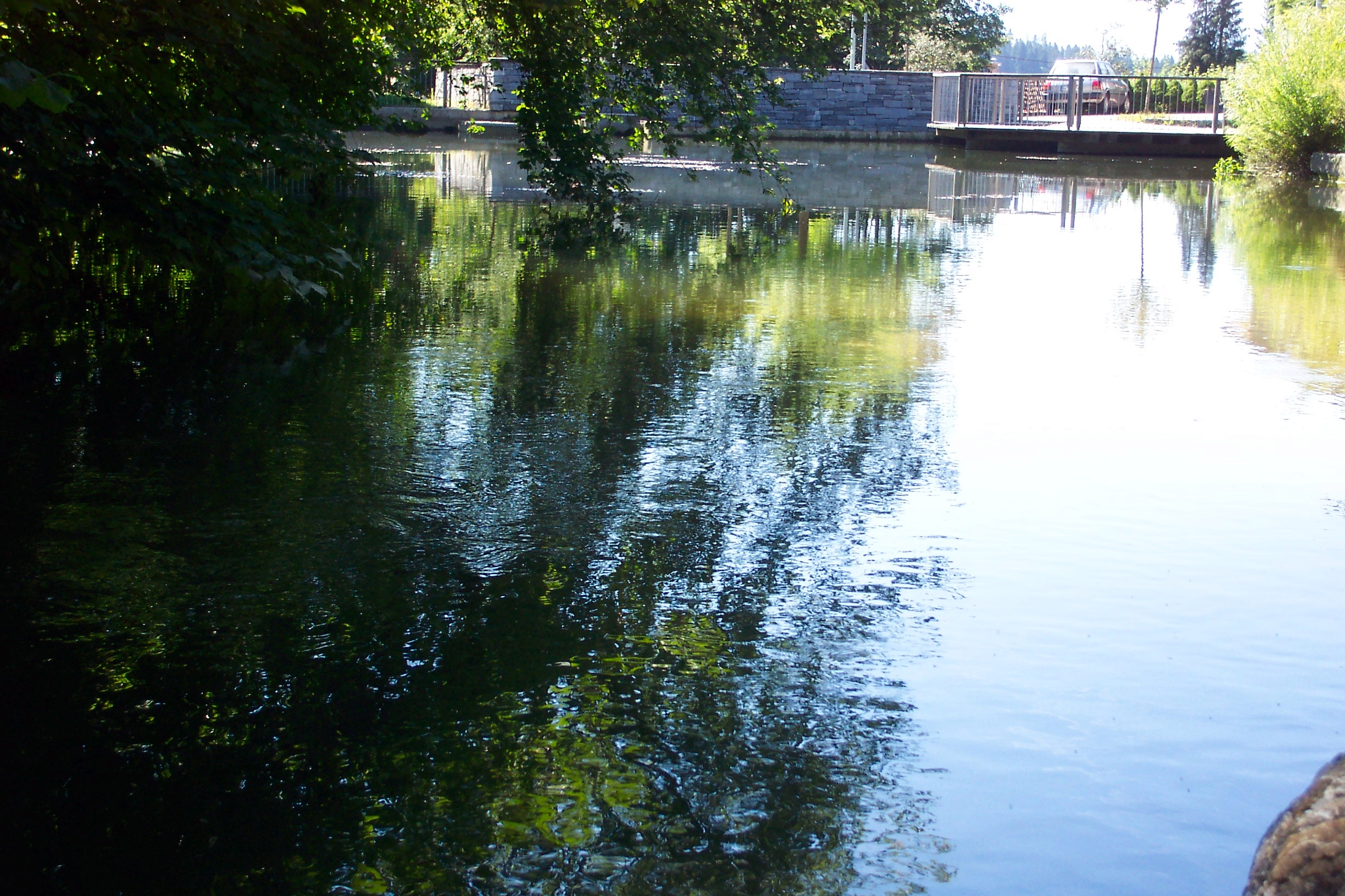 hamlet pond in Ermengerst, situated in the centre and made accessible in the past years.